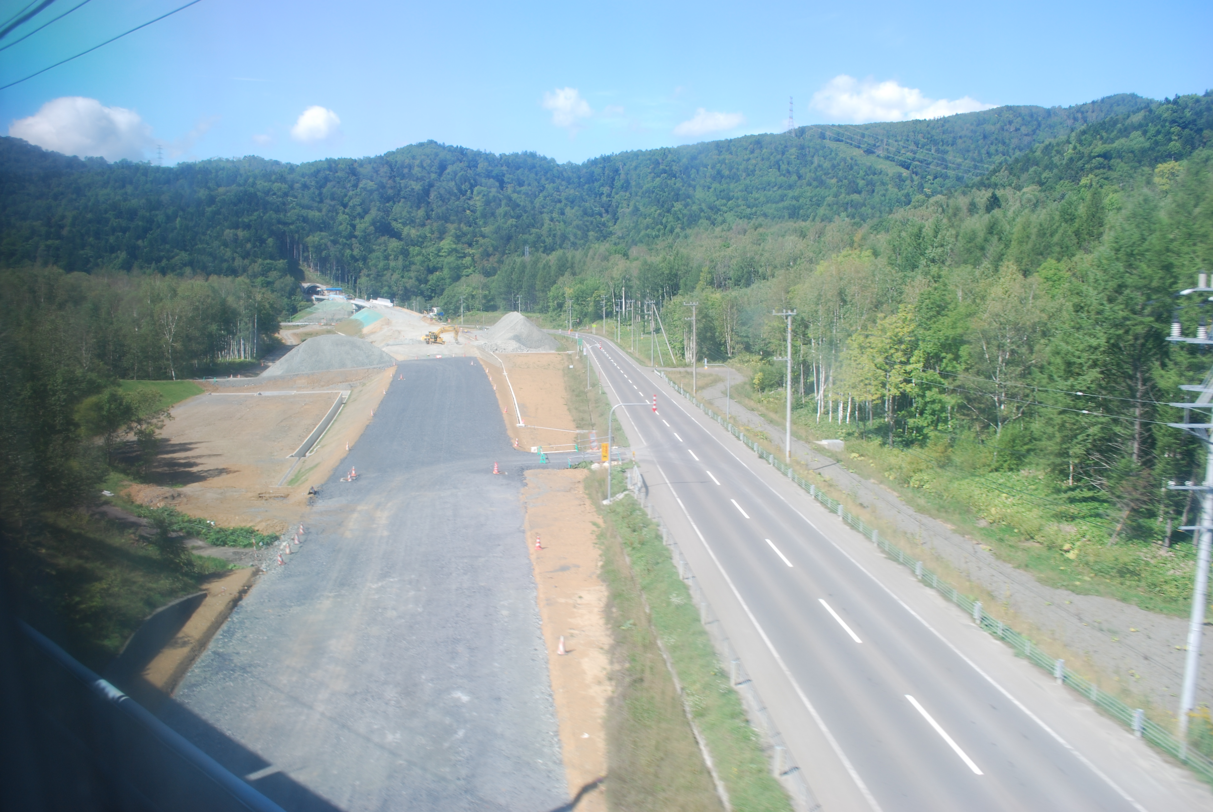 Doto Expressway-tomamu, Shimukappu-village, Hokkaido, Japan